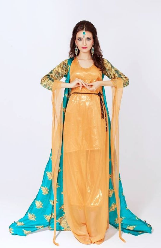 Kurdish traditional women clothing